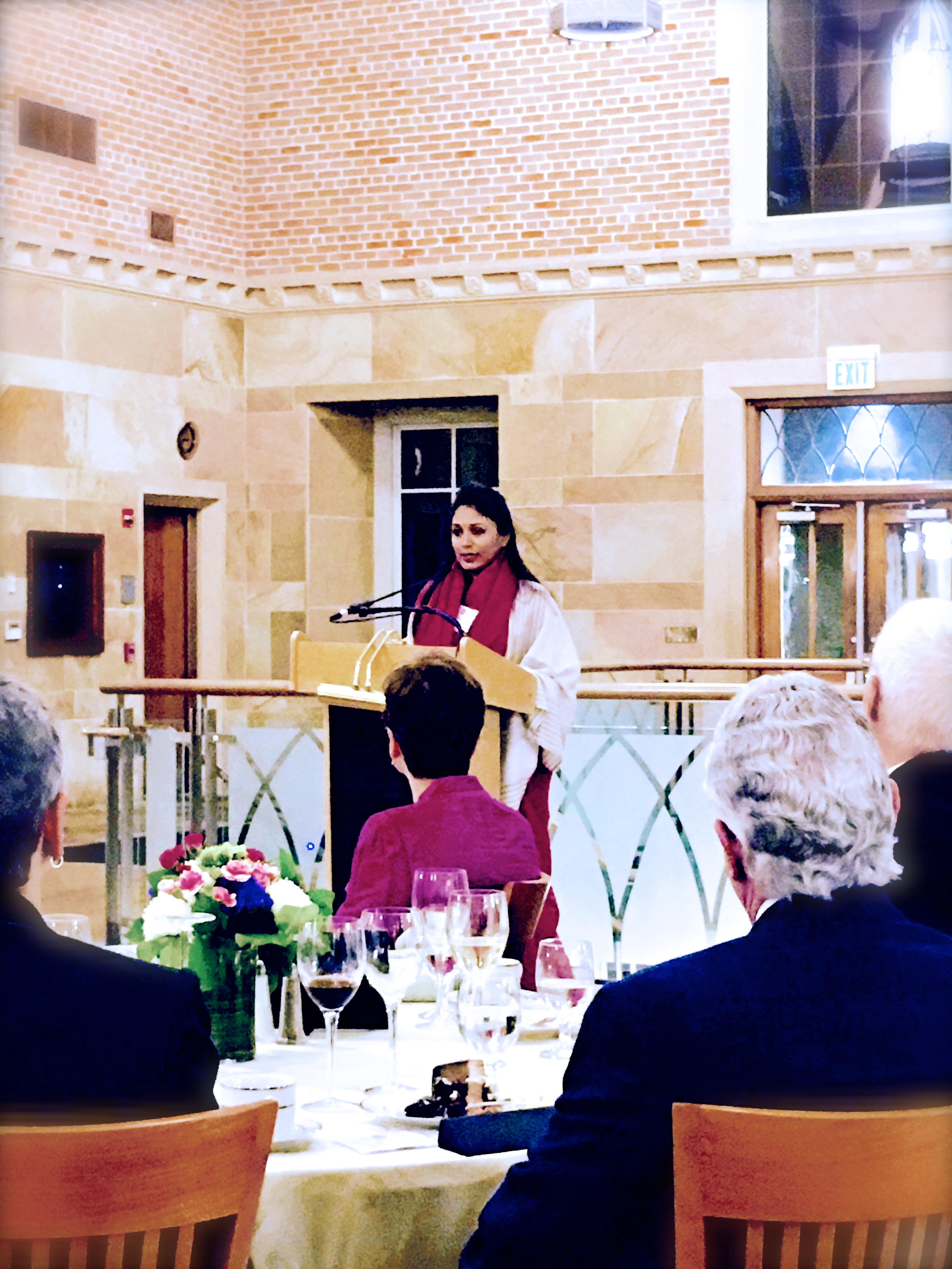 Nazreen addressing the donors of Agnes Scott College, Atlanta, Georgia in April 2016